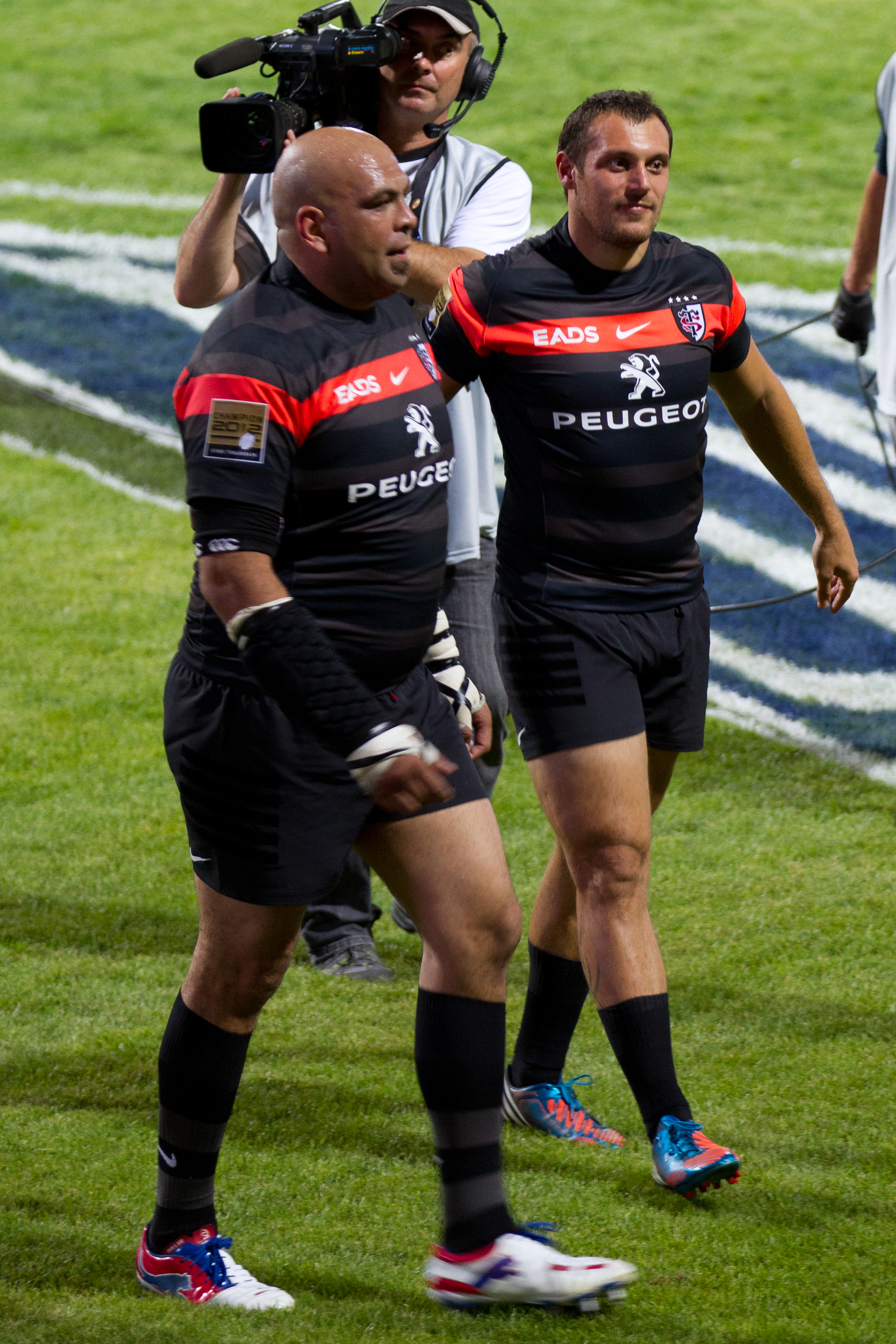 Top 14 — 17 August 2012, Stade Ernest-Wallon. Match between: Stade toulousain — Castres olympique